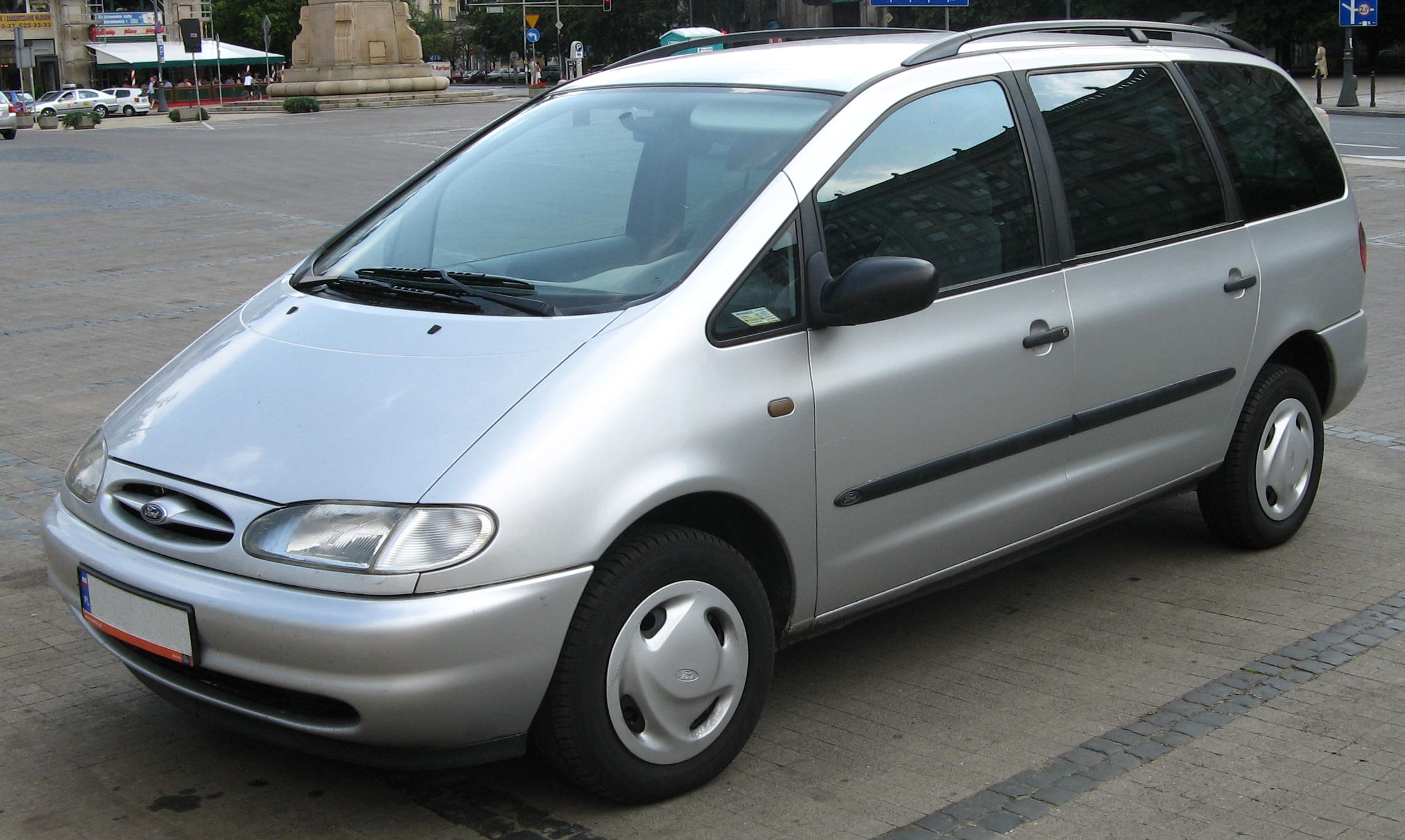 Ford Galaxy (first generation, pre-facelift), silver, photographed in Warsaw